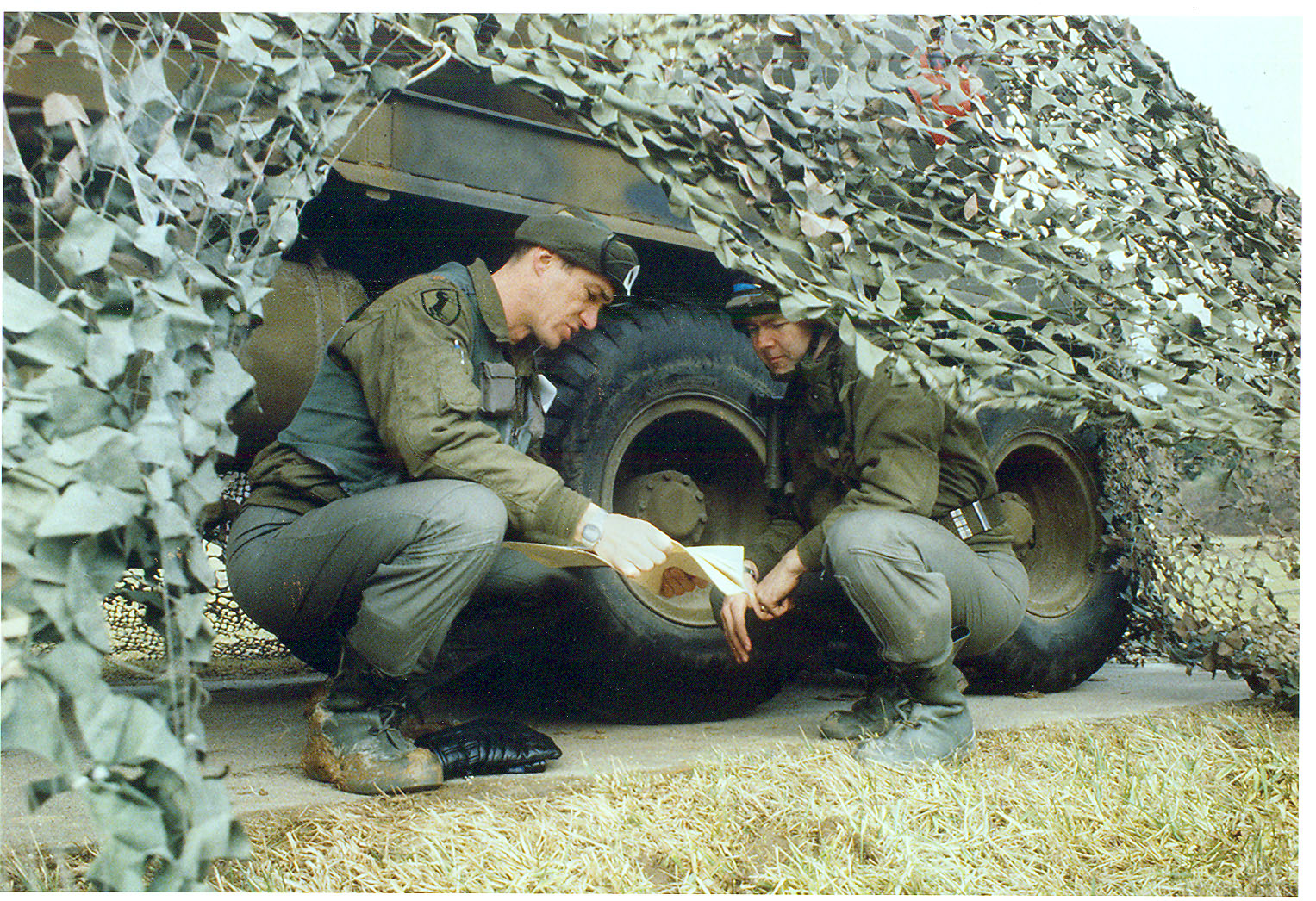 NATO exercise, 1986, Nuremberg, Germany. "A Certain Sentinel" Photo by Nancy Wong